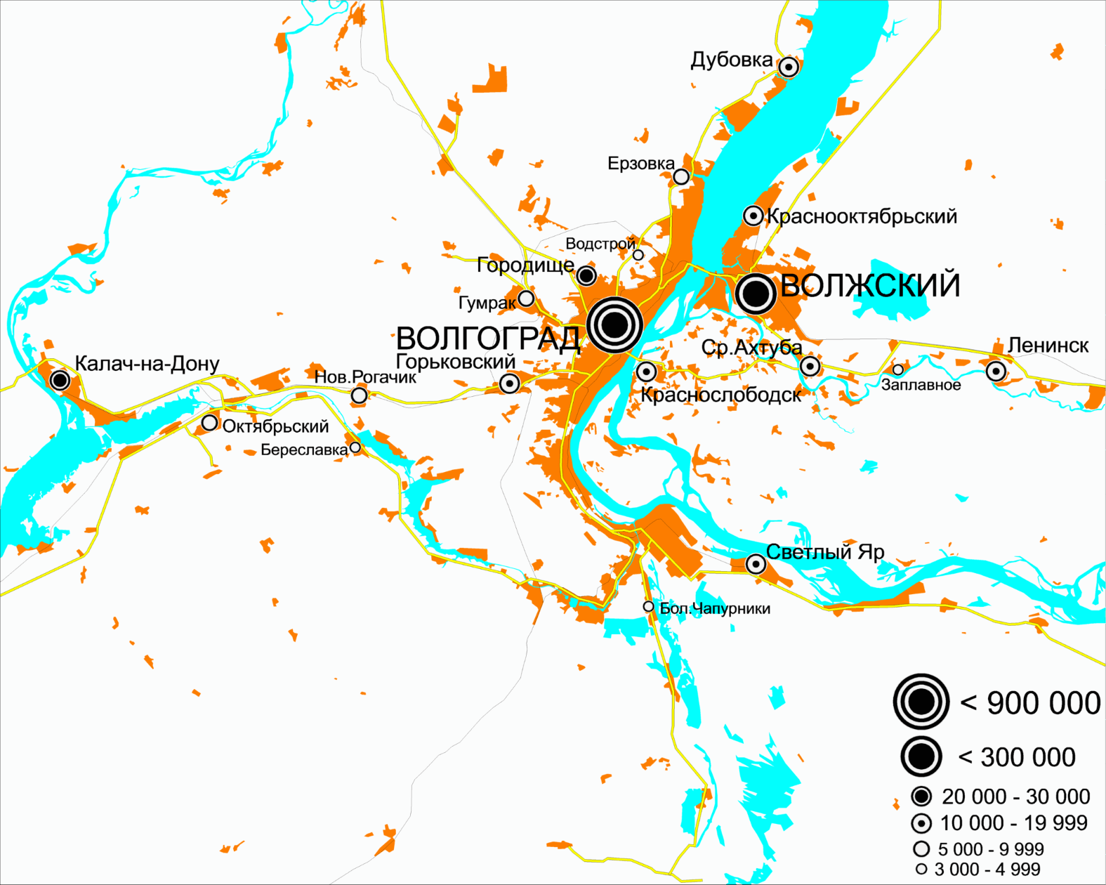 Volgograd urban agglomeration